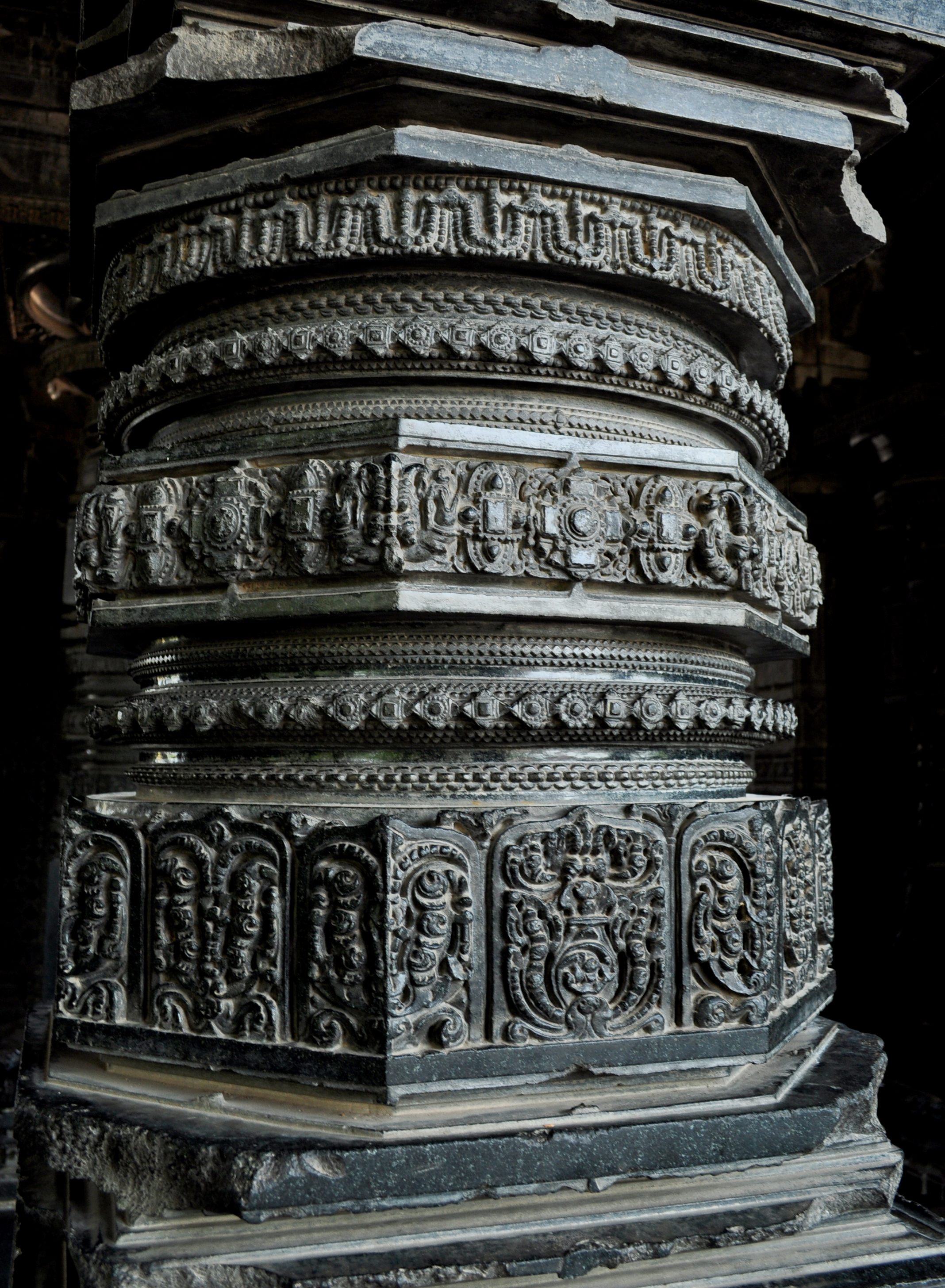 Thousand Pillared temple